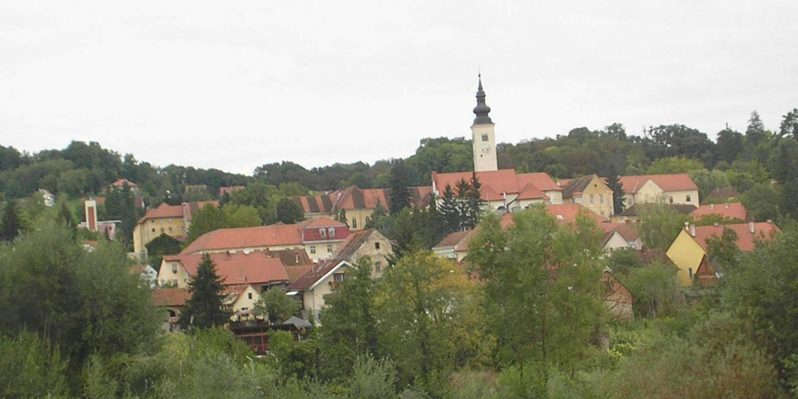 City of Varaždinske Toplice, Croatia